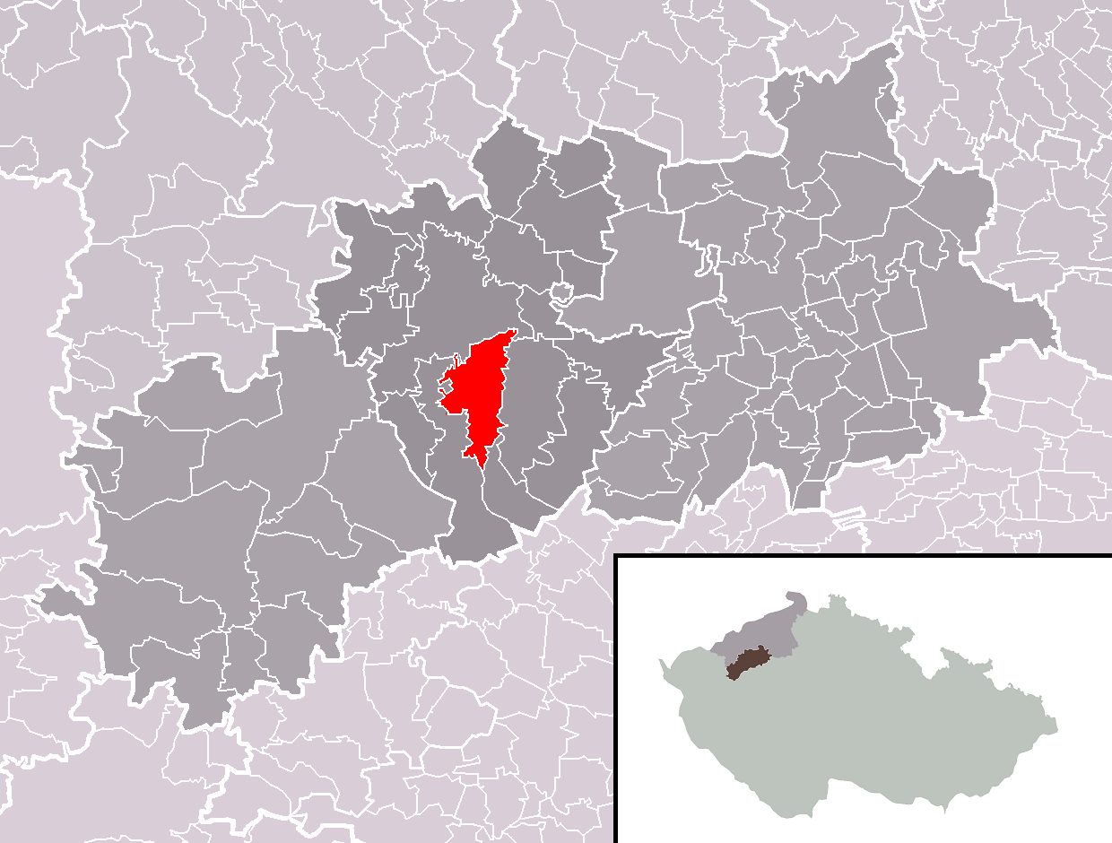 Location of Holedeč municipality within Louny District and administrative area of Žatec as a Municipality with Extended Competence.